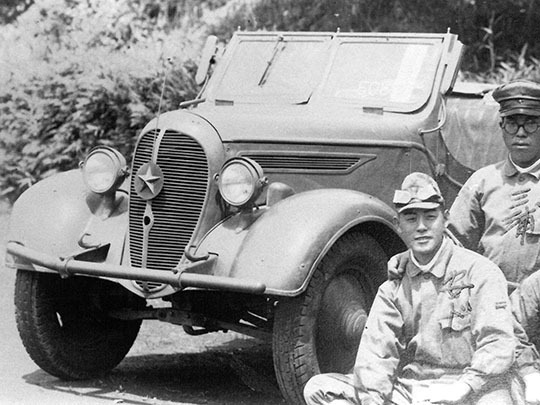 Type 95 reconnaissance car